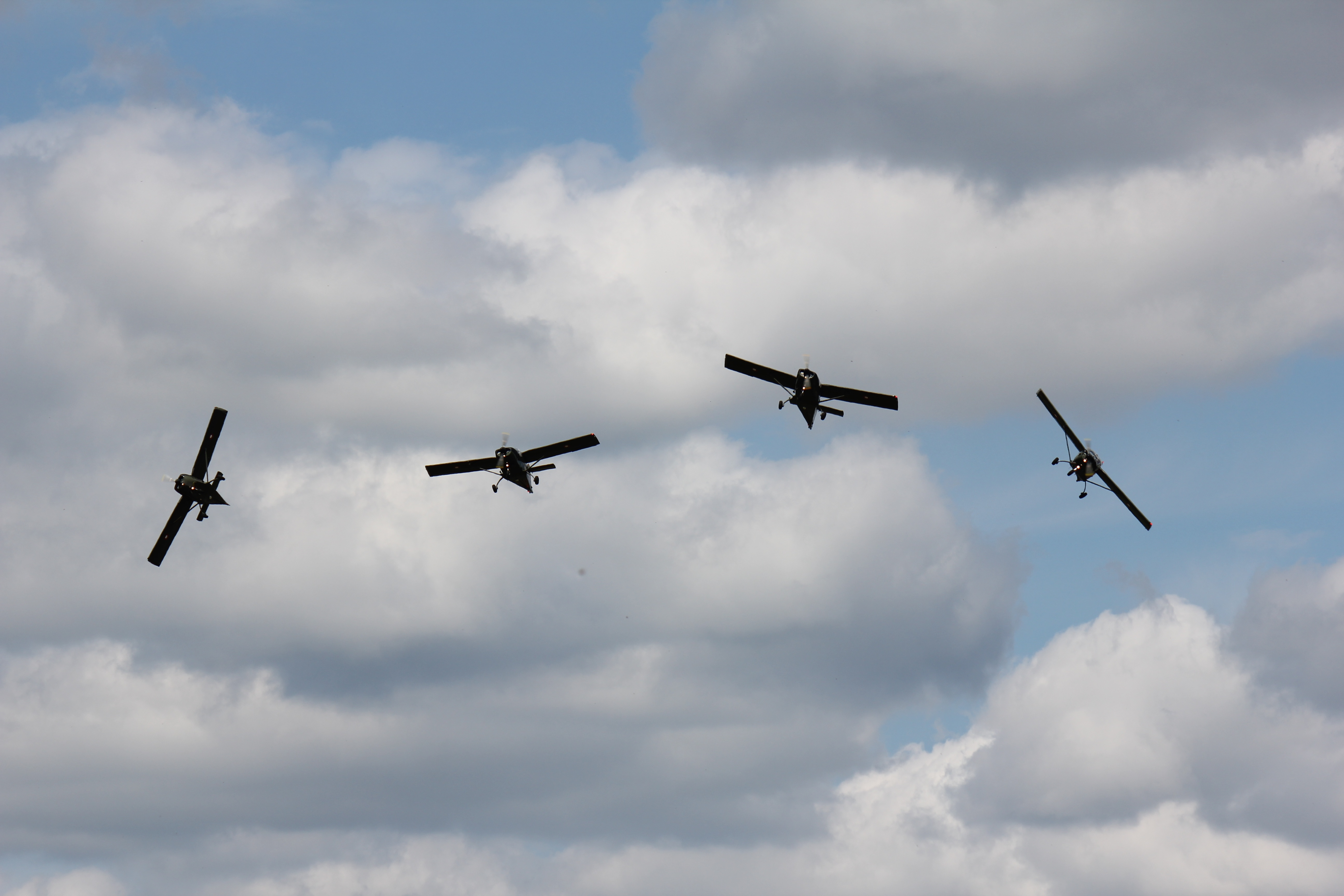 RDAF T-17 Supporter from the Flying School demonstration team " Baby Blue"